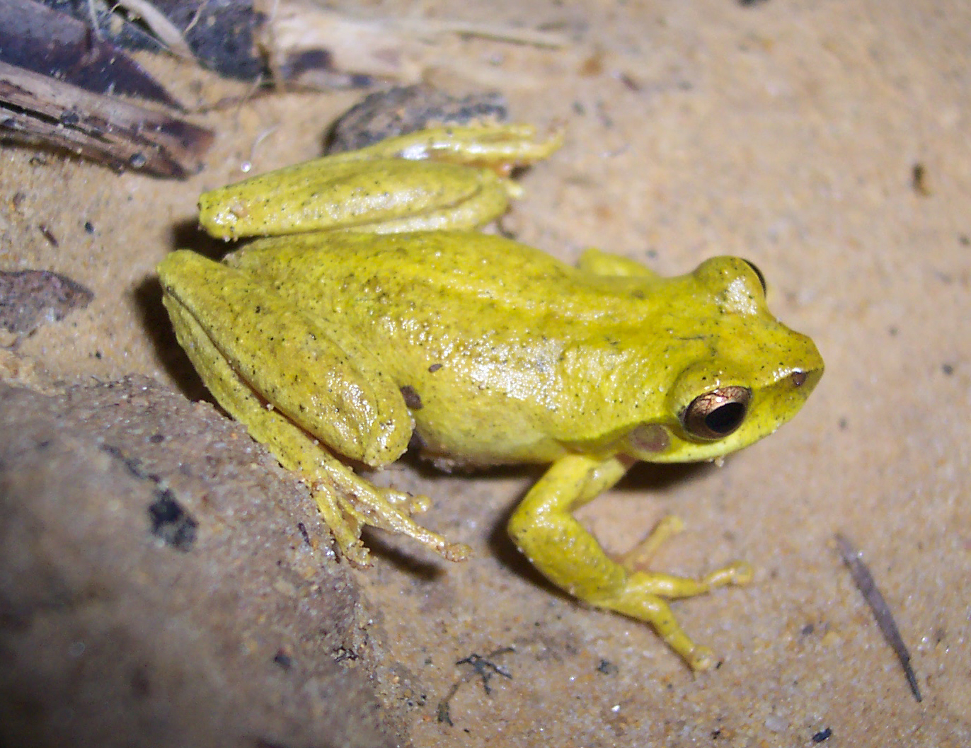 A male Whirring Tree Frog, (Litoria revelata), from the southern population in NSW. Category:Frog images